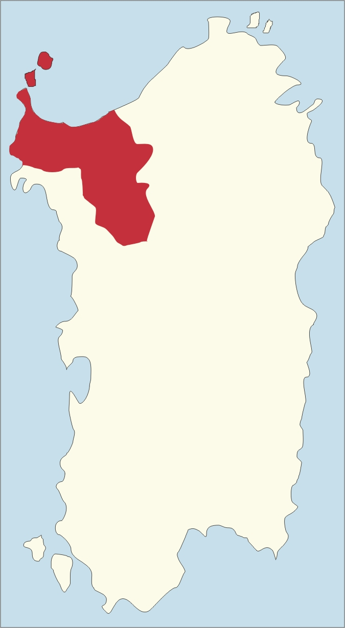 Map of the situation of the Roman Catholic diocese of Sassari in Sardinia